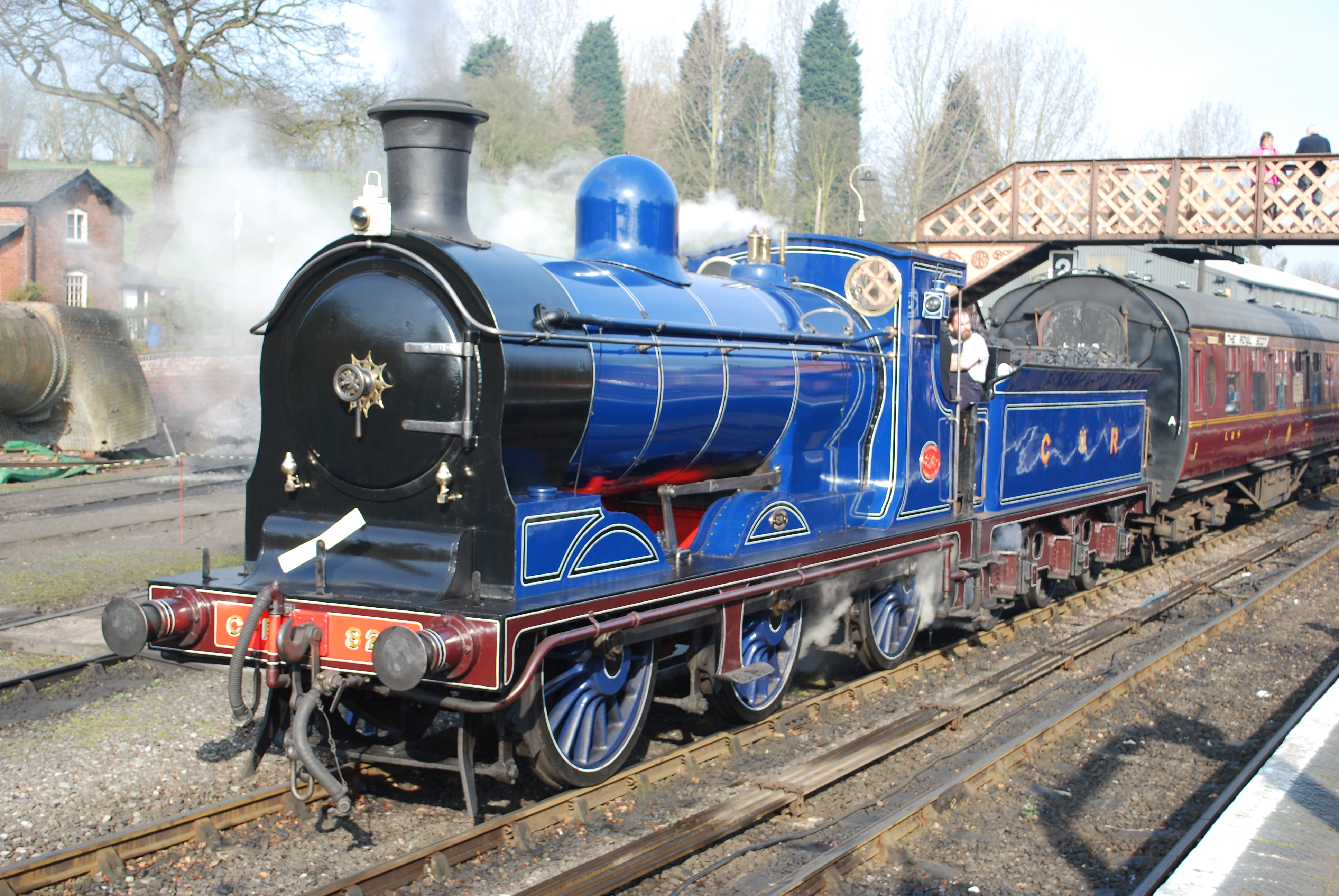 Caledonian Railway McIntosh Class "812" (LMS Class "3F") 0-6-0 No.828 (LMS No.17566; BR No.57566) in beautiful CR lined blue livery at Bridgnorth on a service to Hampton Loade on the Severn Valley Railway, 03/12.